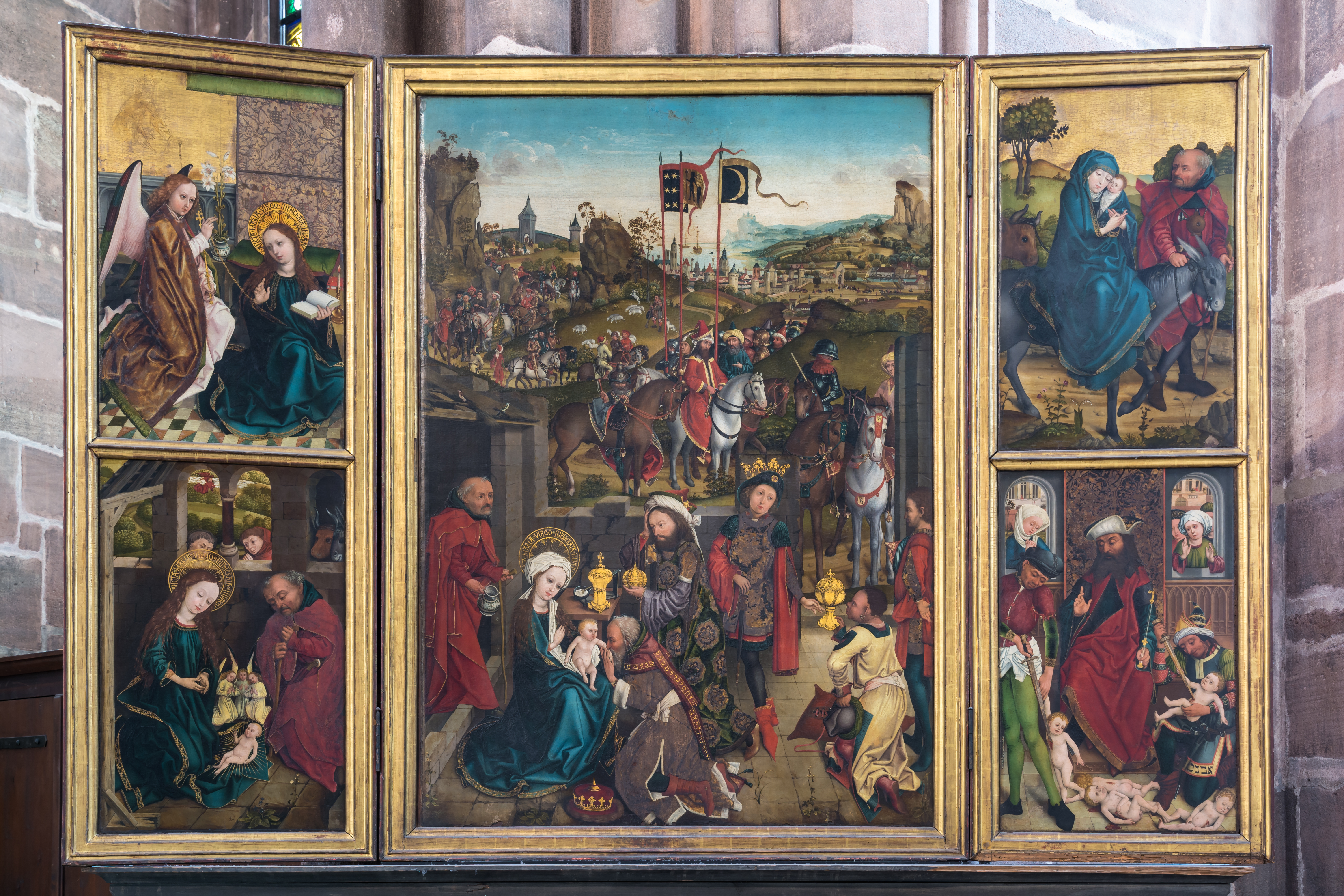 around 1460.